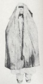 one of Ewha Womans University students, 1900s